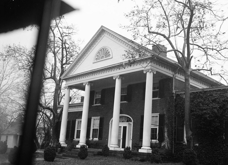 Brompton, Sunken Road & Hanover Street (Fredericksburg, Virginia) cropped This file comes from the Historic American Buildings Survey (HABS), Historic American Engineering Record (HAER) or Historic American Landscapes Survey (HALS). These are programs of the National Park Service established for the purpose of documenting historic places. Records consist of measured drawings, archival photographs, and written reports. When reusing please credit: Library of Congress, Prints & Photographs Division, VA,89-FRED,8-1 This tag does not indicate the copyright status of the attached work. A normal copyright tag is still required. See Commons:Licensing for more information. This work is in the public domain in the United States because it is a work prepared by an officer or employee of the United States Government as part of that person’s official duties under the terms of Title 17, Chapter 1, Section 105 of the US Code. See Copyright. Note: This only applies to original works of the Federal Government and not to the work of any individual U.S. state, territory, commonwealth, county, municipality, or any other subdivision. This template also does not apply to postage stamp designs published by the United States Postal Service since 1978. (See § 313.6(C)(1) of Compendium of U.S. Copyright Office Practices). It also does not apply to certain US coins; see The US Mint Terms of Use. This file has been identified as being free of known restrictions under copyright law, including all related and neighboring rights. Object location38° 17′ 44″ N, 77° 28′ 13″ W